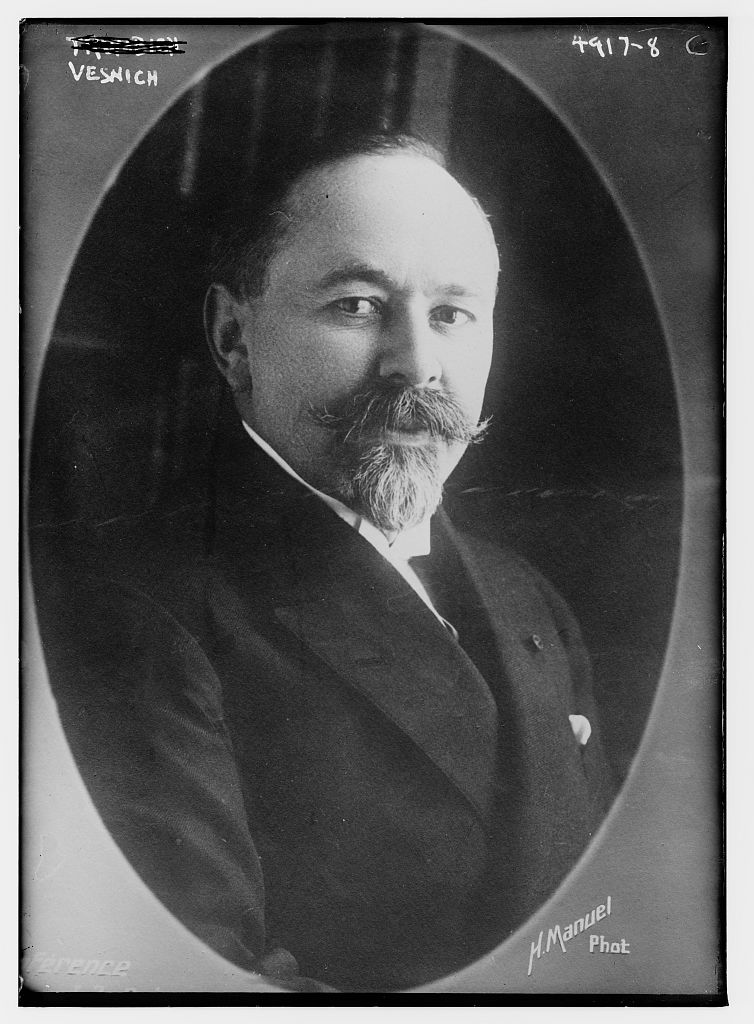 Serbian & Yugoslav politician and PM, Milenko Vesnić.